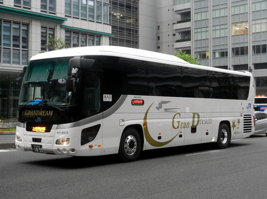 Nishinihon JR bus Isuzu Gala (QRG-RU1ESBJ)for night highwaybus "Gran Dream"